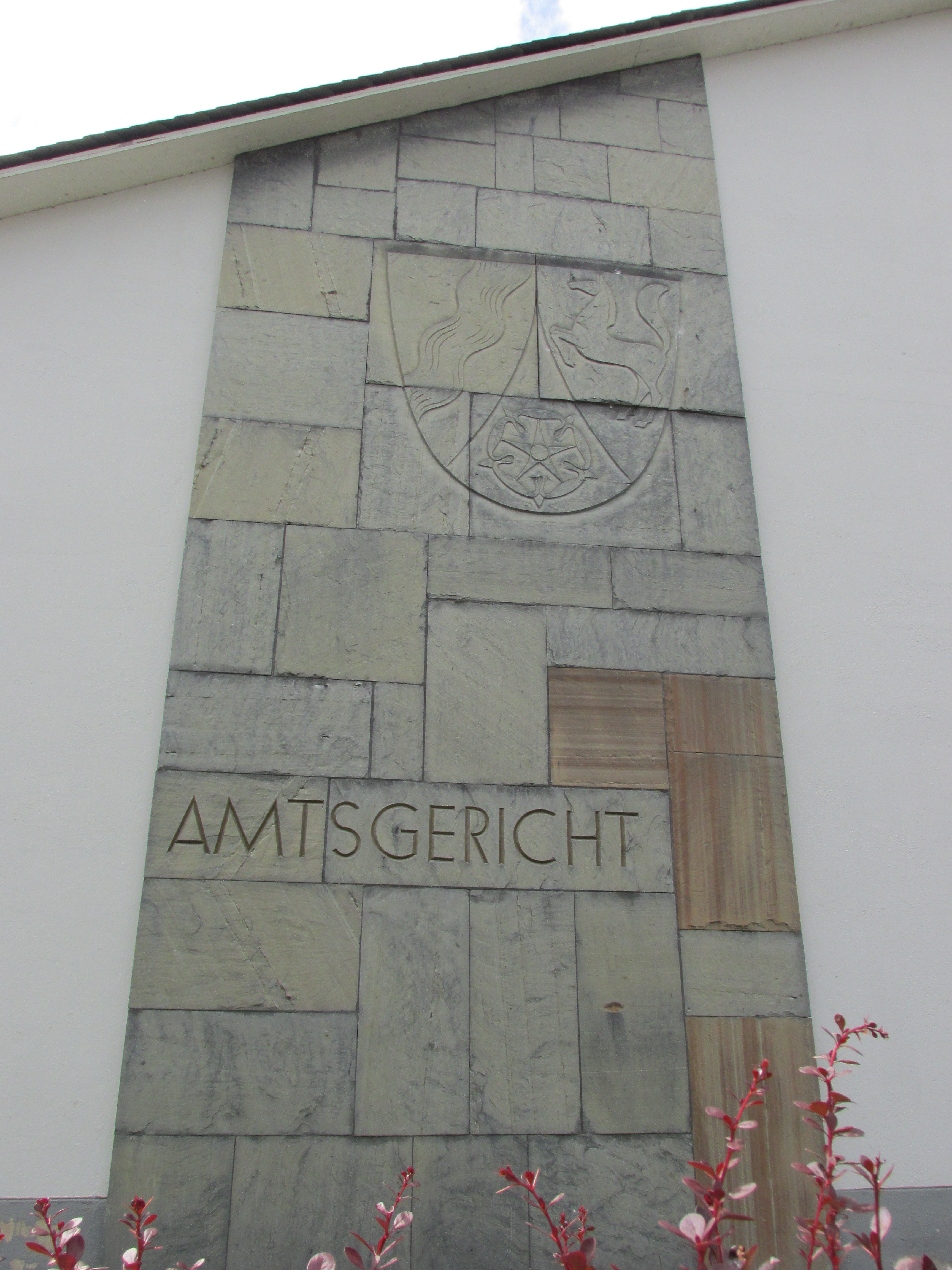 Courthouse Amtsgericht Bad Berleburg, Bad Berleburg, Germany